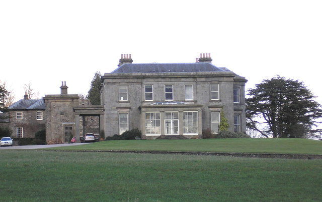 Rigmaden Park An impressive early 19thC house built for Christopher Wilson of Kendal to replace an older manor house.